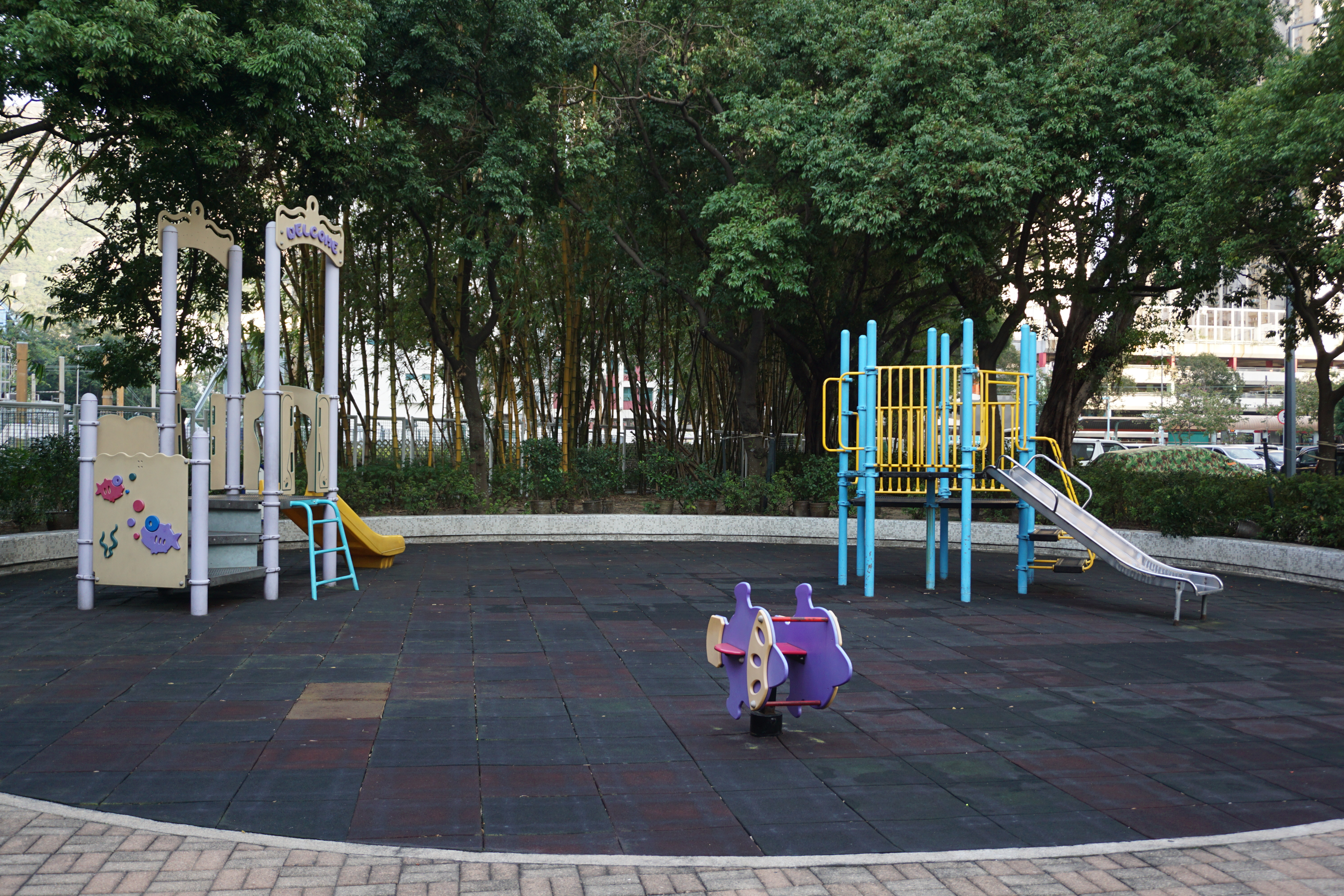 Tsui Ning Garden in Tuen Mun, Hong Kong.